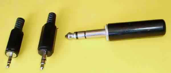 TRS plugs. This is an original photograph by Andrew Alder, taken on 11 November 2003.